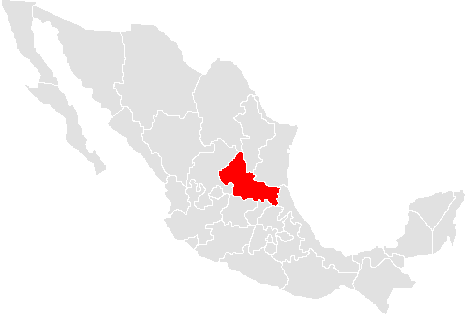 A map of the Mexican state of san luis potosi made by me